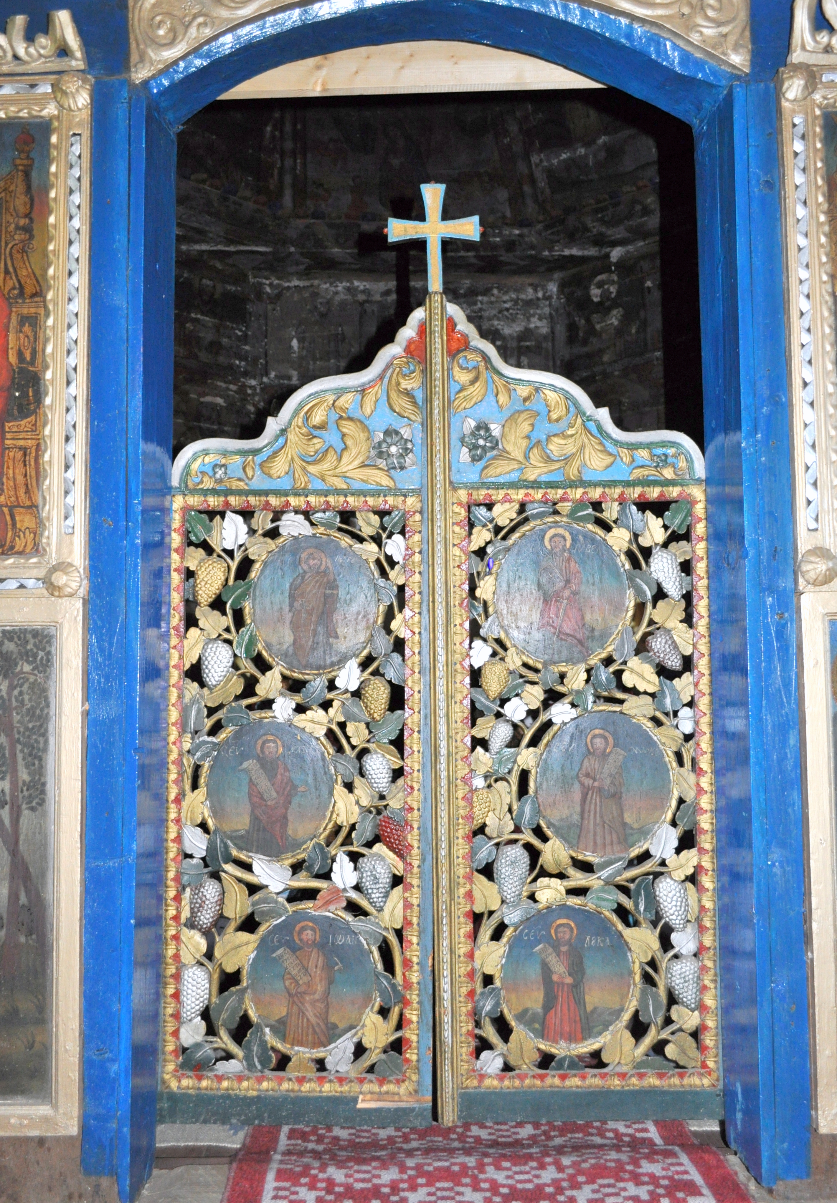 Wooden church in Săcalu de Pădure, Mureș countyRomână: Biserica de lemn din Săcalu de Pădure, județul Mureș